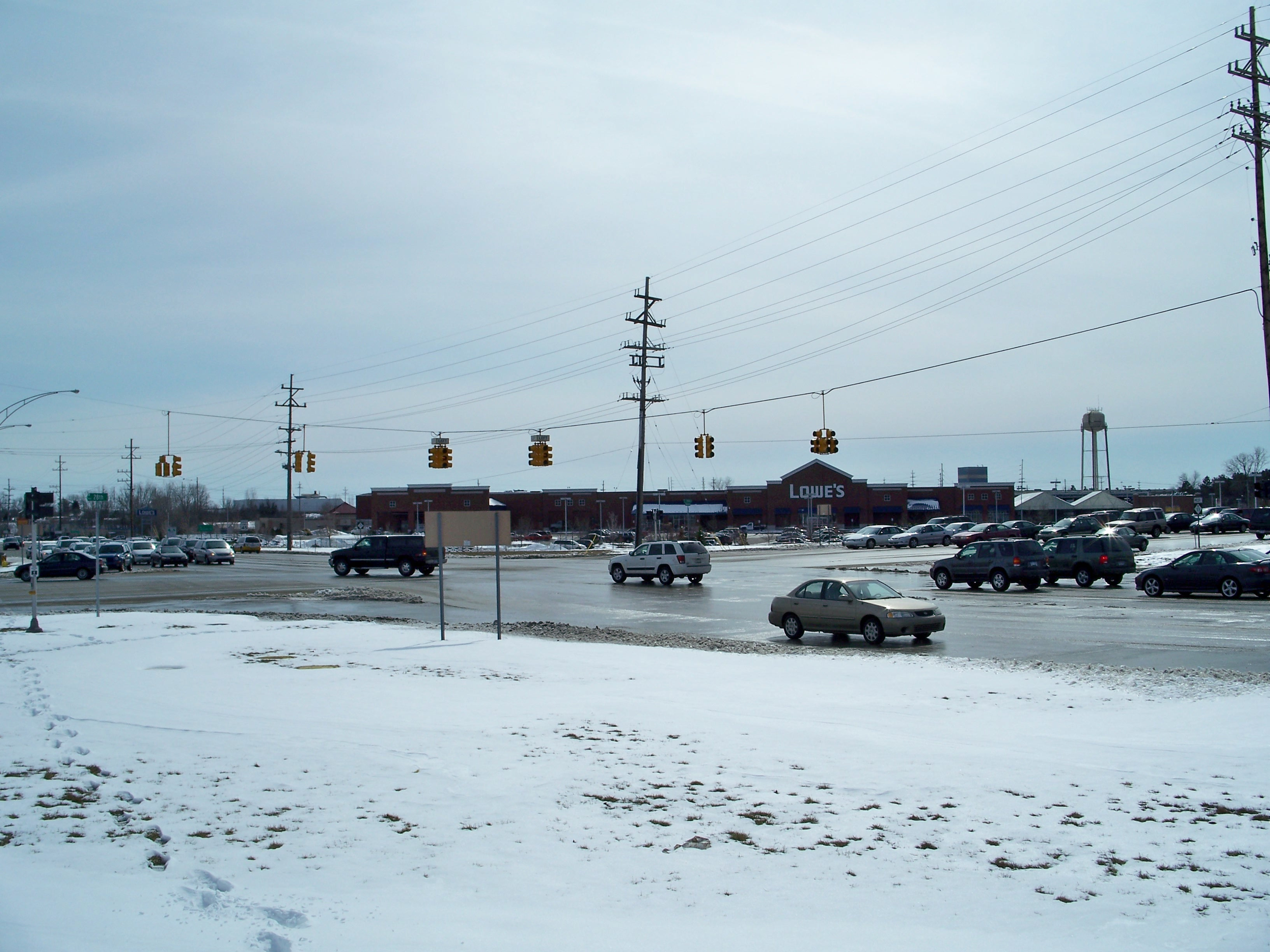 I figured since I was in the area that I would get a picture of this signal. The admin for one of my groups is a big fan of dual left turn lanes for some reason. :P